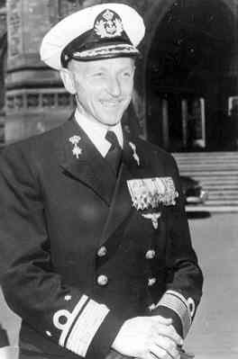 Heije Schaper as Rear Admiral